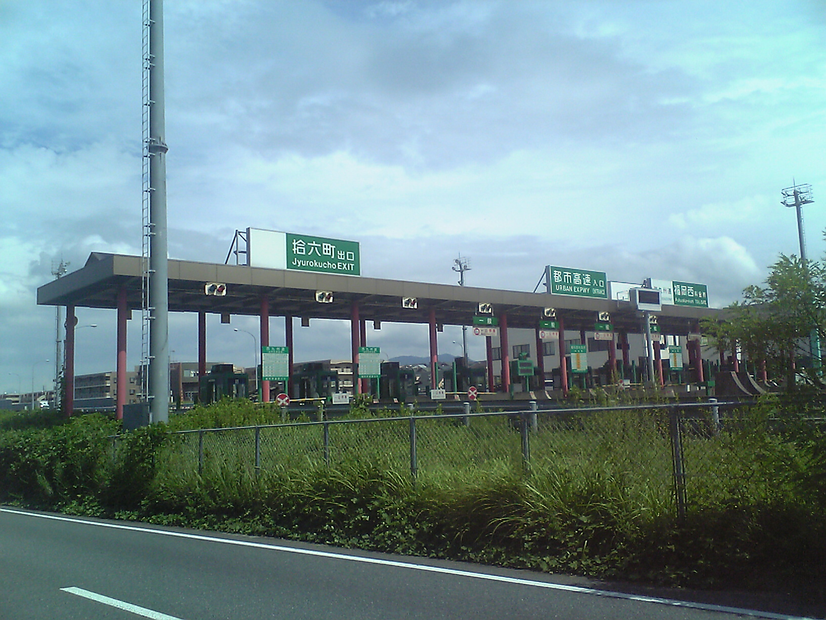 Fukuoka-nishi Toll Gate and Jurokucho Interchange on the Nishi-Kyushu Expressway